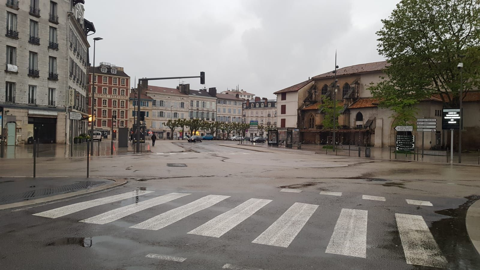 Baiona - Bayonne (North Basque country) during the confinement, April 21, 2020, 10:30. station district by Maubec street, without cars.